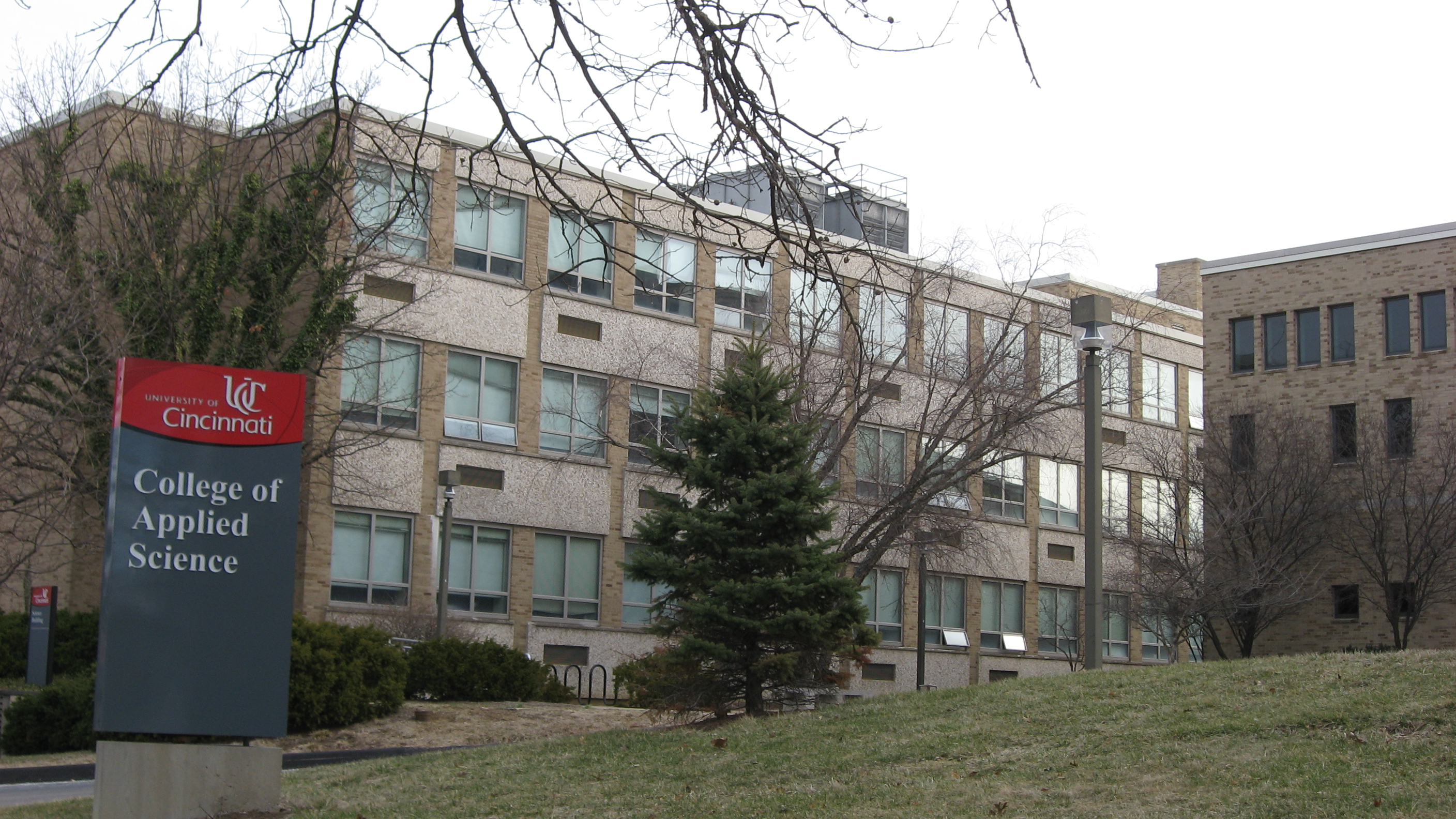 Land at 2220 Victory Parkway in the Walnut Hills neighborhood of Cincinnati, Ohio, United States. This area was once part of the campus of Edgecliff College, although it is now owned by the University of Cincinnati College of Applied Science. The site was once occupied by a house known as Edgecliff; it was listed on the National Register of Historic Places in 1977, and the site remains on the Register despite the house's destruction.